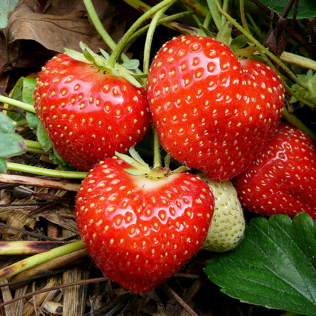 September strawberries The fine dry weather of the early autumn of 2009 has resulted in a fine crop of luscious late strawberries.